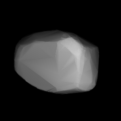 3D convex shape model of 692 Hippodamia, computed using light curve inversion techniques. J. Hanuš, J. Ďurech, M. Brož, B. D. Warner (June 2011). "A study of asteroid pole-latitude distribution based on an extended set of shape models derived by the lightcurve inversion method". Astronomy and Astrophysics 530: A134. ISSN 0004-6361. arXiv